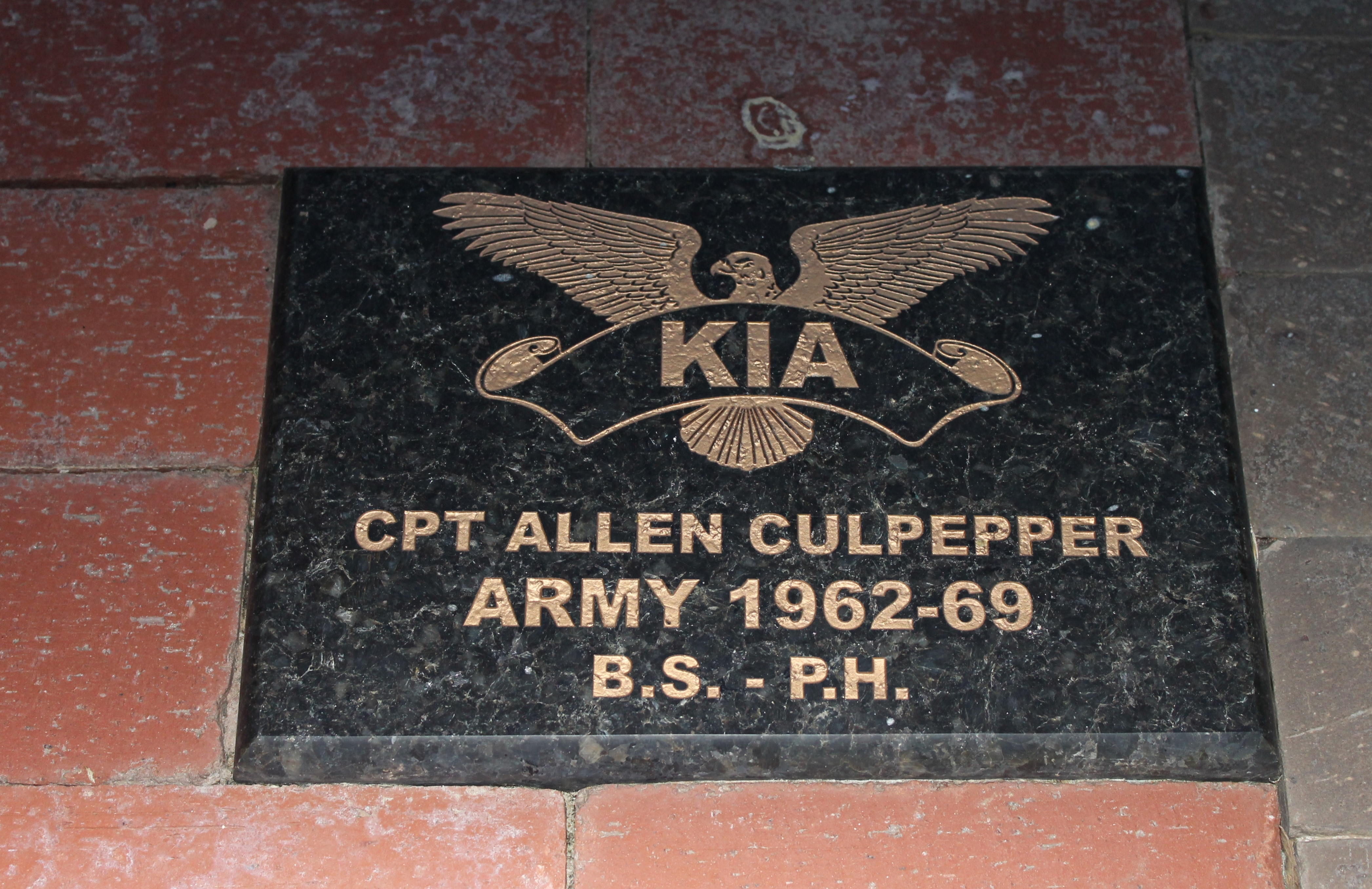 Capt. Allen Culpepper plaque at Veteran's Monument on Turner's Pond in Minden, LA